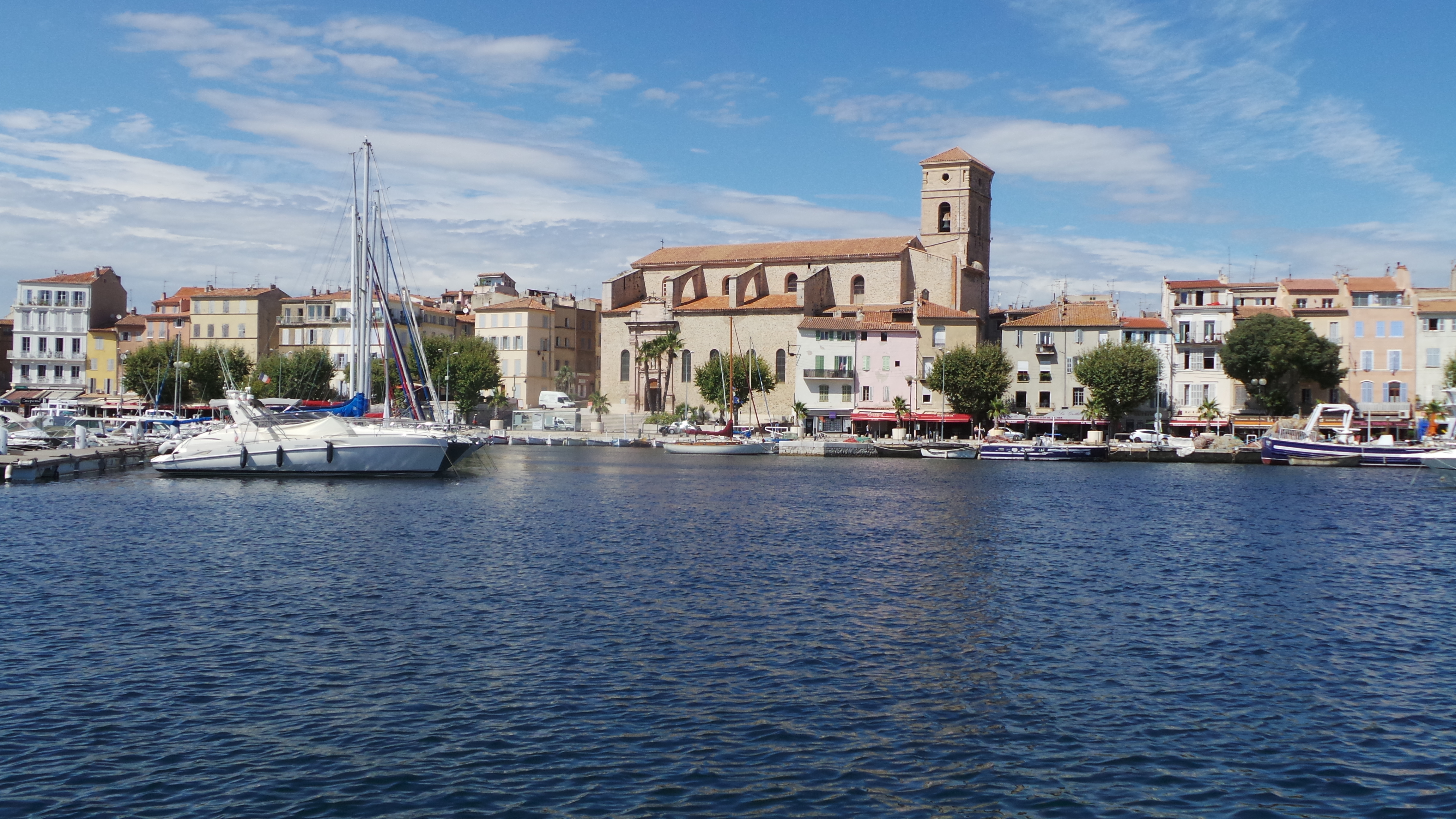 Waterfront marina, La Ciotat